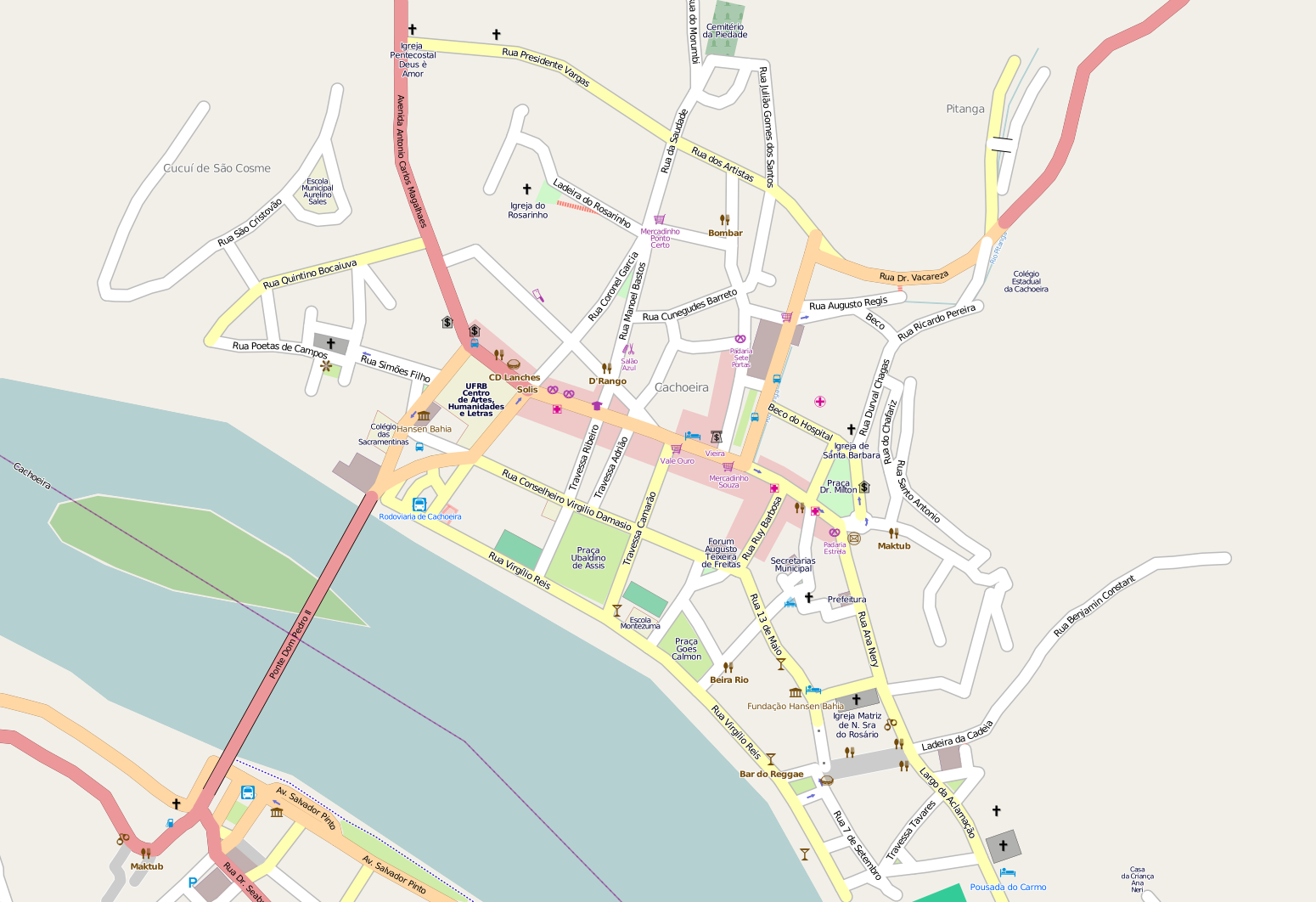 Map of Cachoeira, Bahia, Brazil, from OpenStreetMap